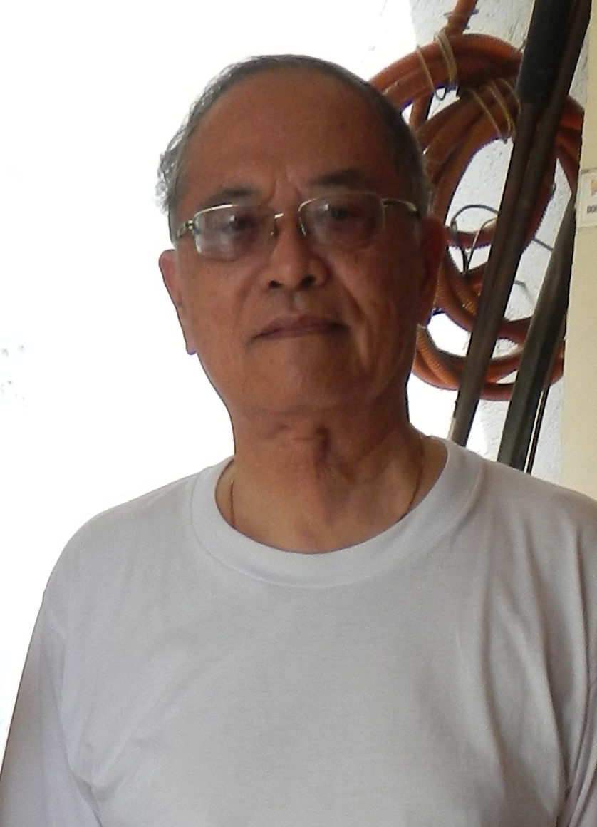 Rare close, original and unedited photo (in his retirement residence at the National Shrine of The Divine Mercy, Philippines[1] - after 2 hours interview on his retirement) of His Excellency Bishop Deogracias S. Iñiguez, Jr. [2] (* 10. Dezember 1940 in Cotabato City, Philippinen) ist emeritierter Bischof von Kalookan. [3] the first Bishop of the Roman Catholic Diocese of Kalookan, was born on December 10, 1940 in Cotabato City, southern Philippines. Caloocan bishop quits; Vatican accepts January 26th, 2013 The 72-year-old Iñiguez, who is chair of the CBCP Public Affairs Committee, resigned before the mandated retirement age of 75. Bishop Emeritus of Kalookan Bishop of Kalookan [4] Birth: December 10, 1940 Place of Birth: Cotabato City Sacerdotal Ordination: December 23, 1963 - Malolos Cathedral Episcopal Ordination: August 22, 1985 - Malolos Cathedral [5]